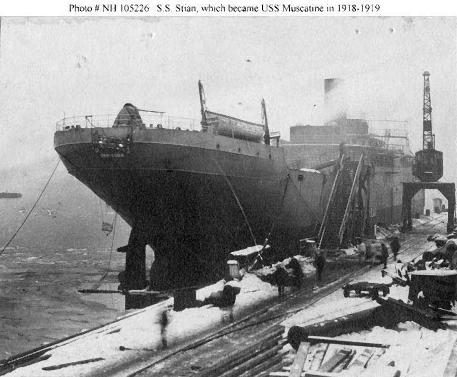 Fitting out at Shooters Island, New York, possibly when inspected by the Third Naval District on 19 December 1917. Naval Historical Center photo NH 105226